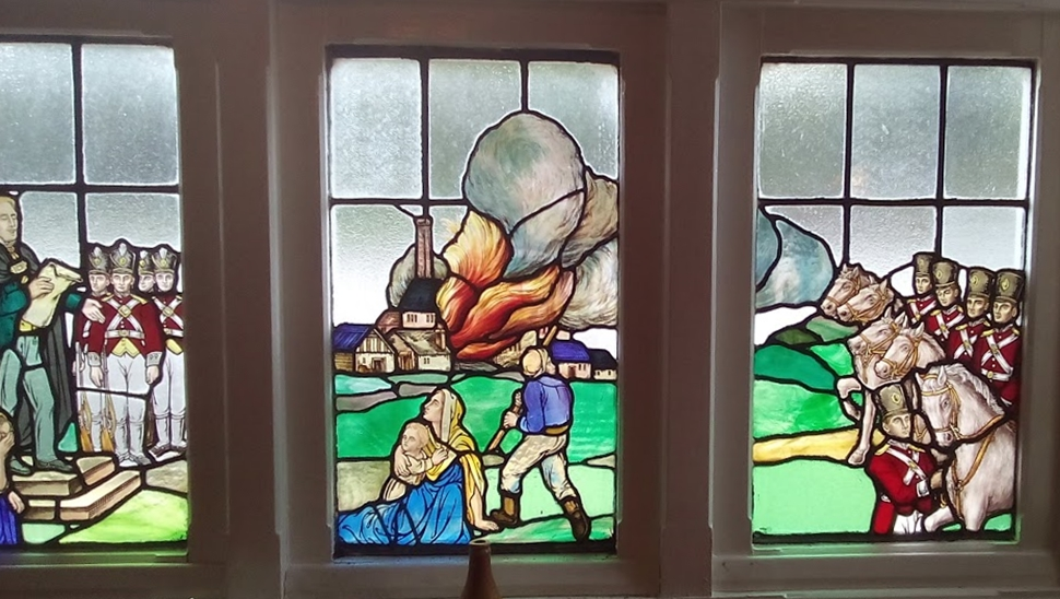 Stained glass window in the Windmill public house, Westhoughton representing the Luddite attack on Westhoughton Mill.